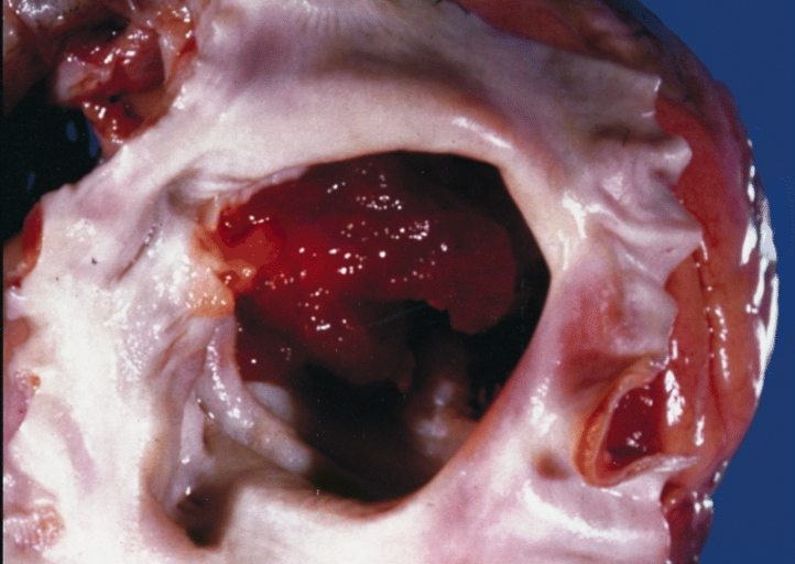 HEART-GREAT VESSELS: CARDIAC MYXOMA A gelatinous tumor is attached by a narrow pedicle to the atrial septum. The myxoma has an irregular surface and nearly fills the left atrium.